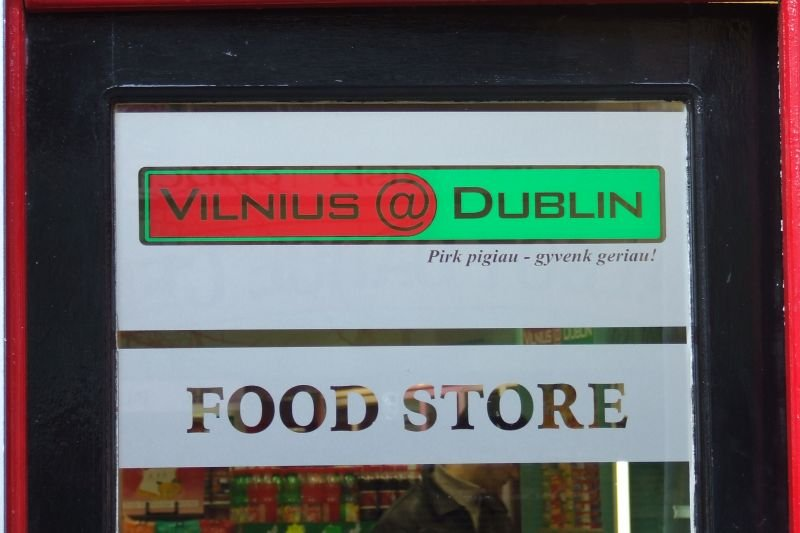 A sign in Dublin's food store